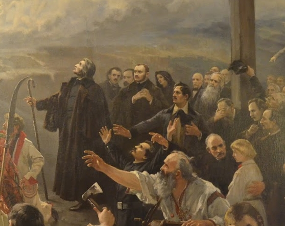 Adam Mickiewicz leads Polish poets (i.a. Juliusz Słowacki, Zygmunt Krasiński). Part of "Polonia" painting